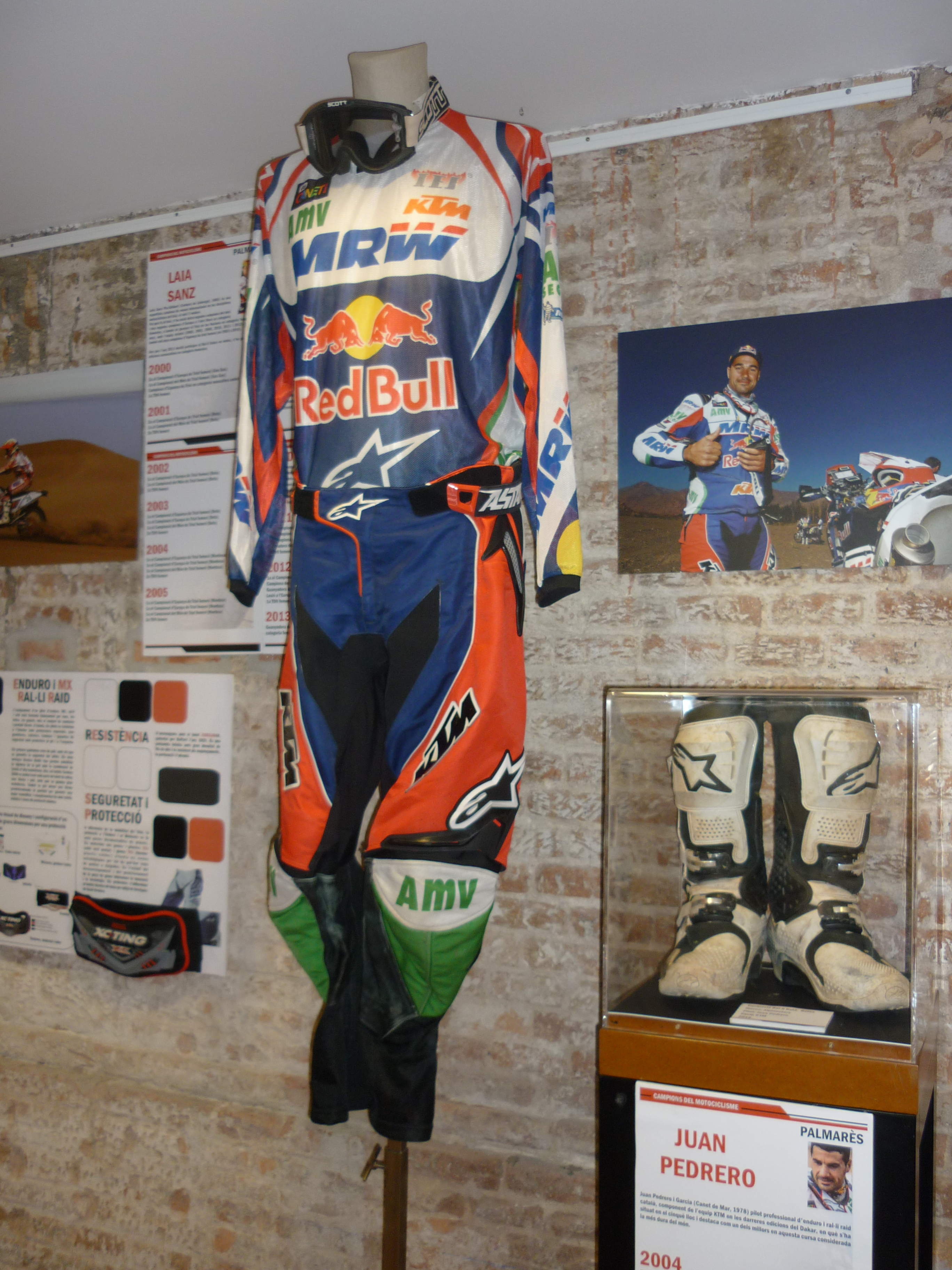 The equipment that wore Joan Pedrero during 2012 season